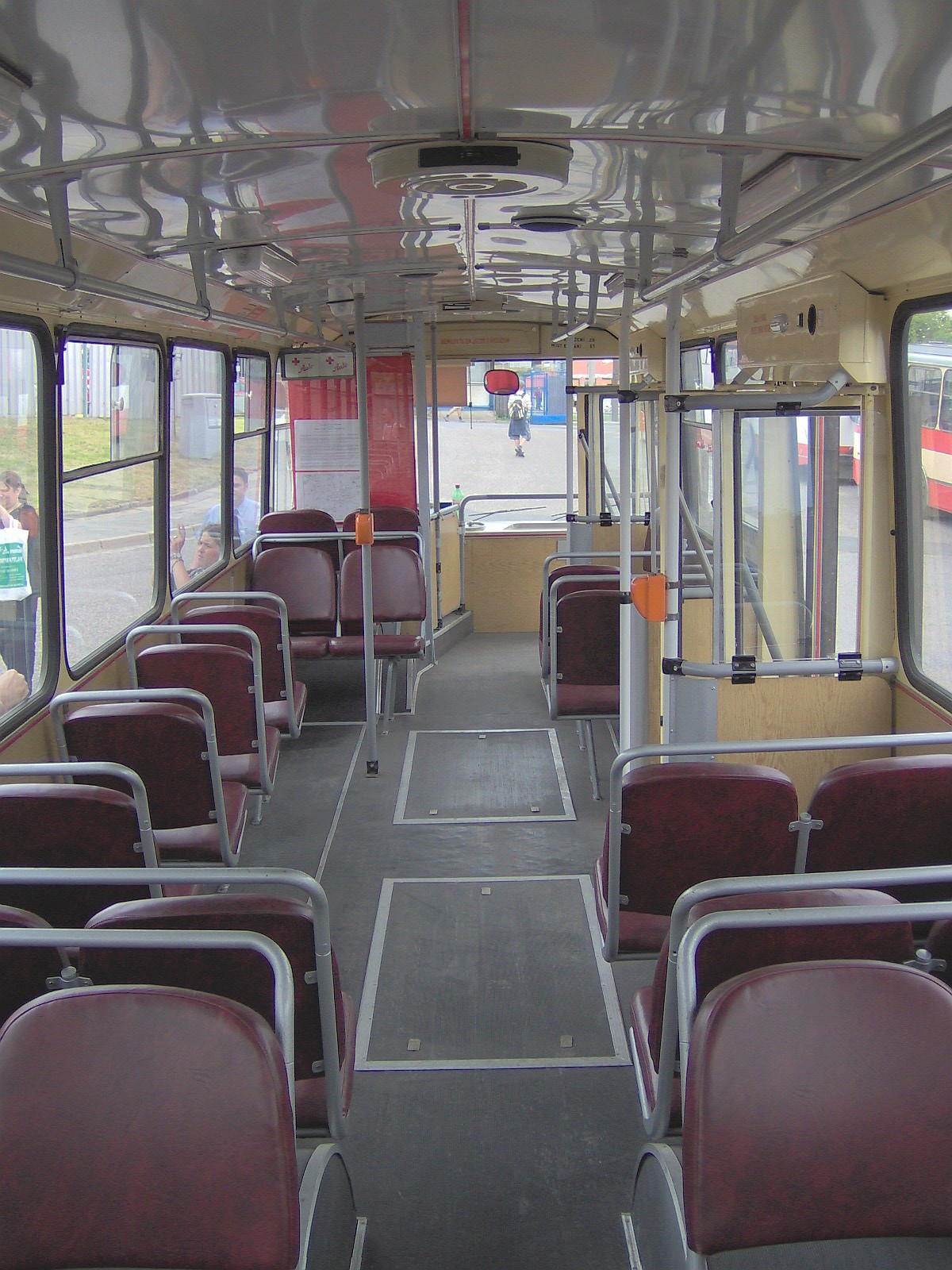 Interior of historical trolleybus Škoda 14Tr in Brno, Czech Republic.